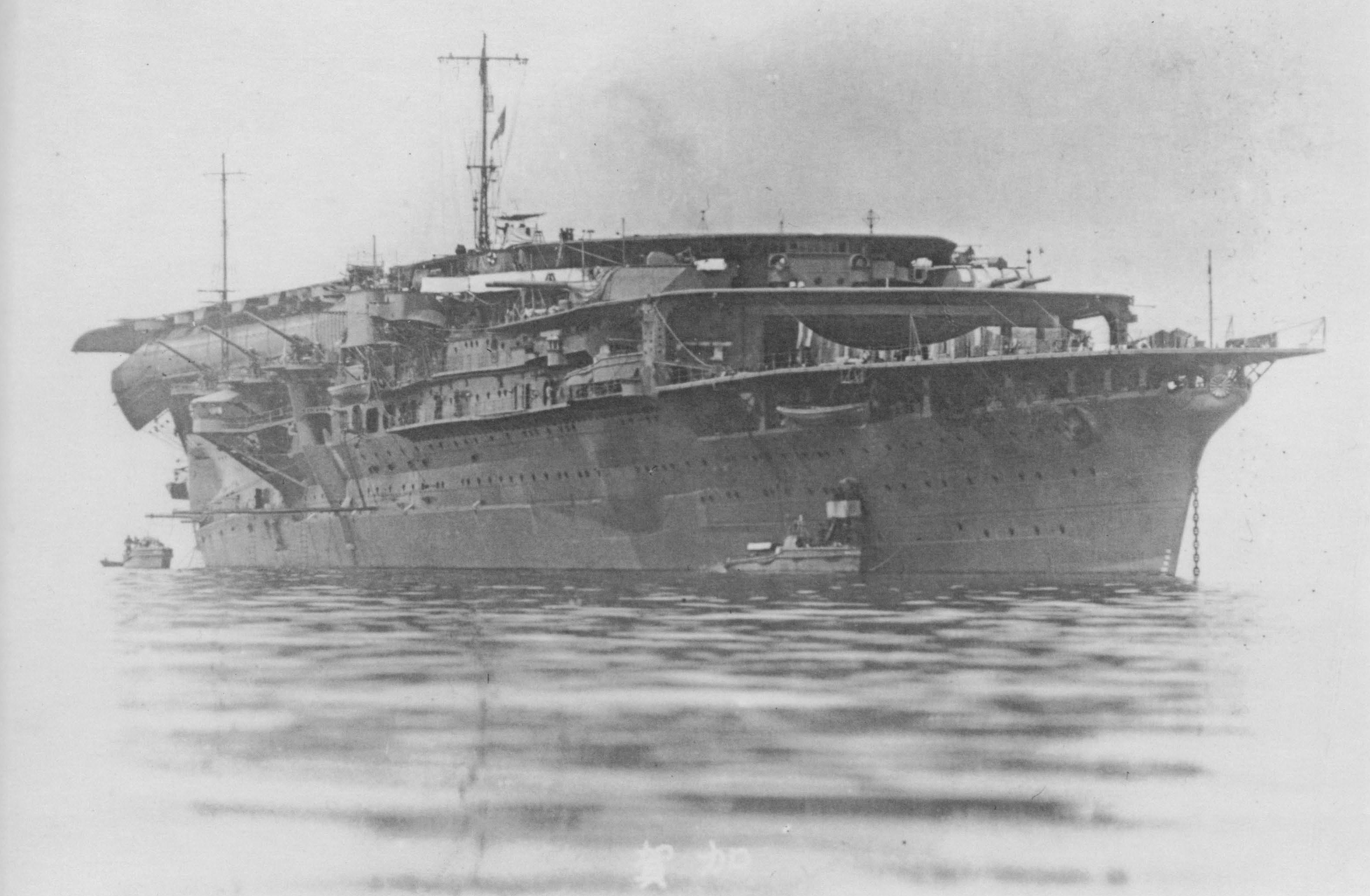 Imperial Japanese Navy aircraft carrier Kaga anchored off Ikari, Japan sometime in 1930.